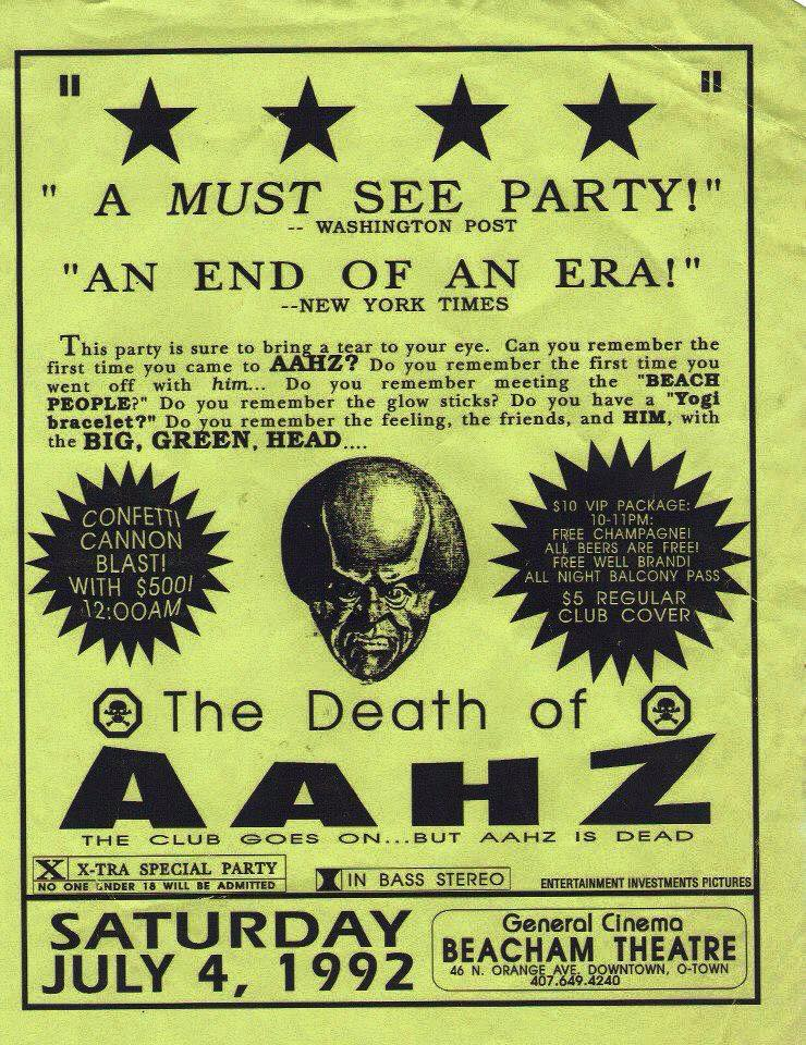 Promotional flyer used by Beacham Theatre for The Death of Aahz event on Saturday, July 4, 1992